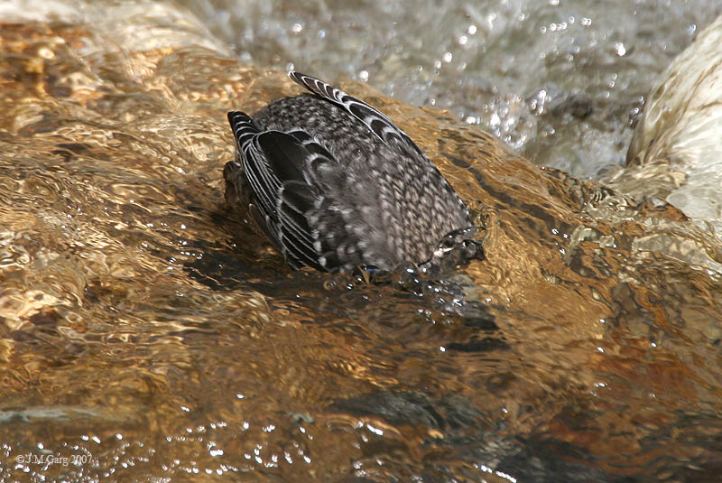 Brown Dipper Cinclus pallasii at Kasol (6500 ft.) in Kullu District of Himachal Pradesh, India.